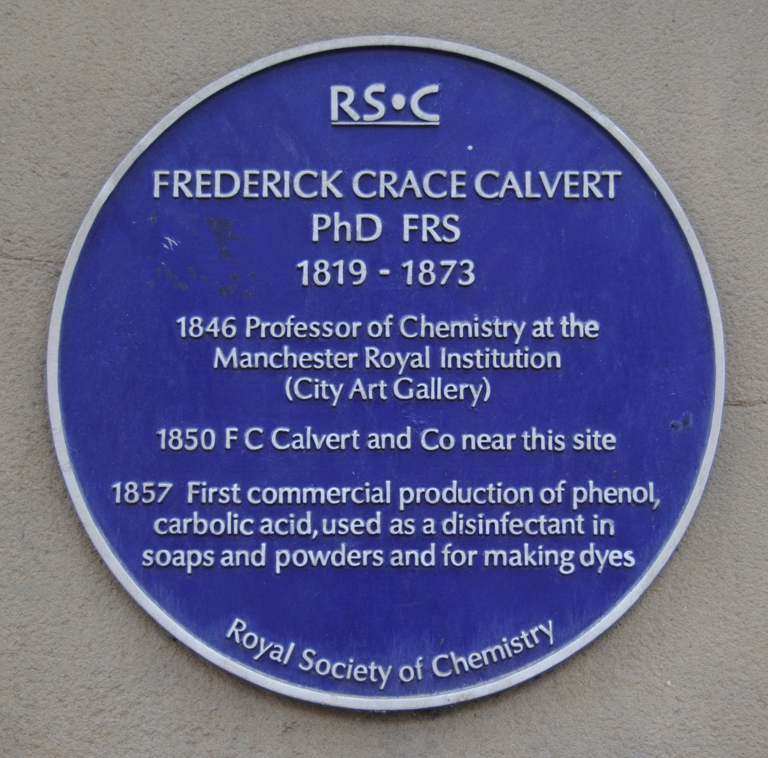 Royal Society of Chemistry blue plaque commemorating Frederick Crace Calvert, in Manchester, England.